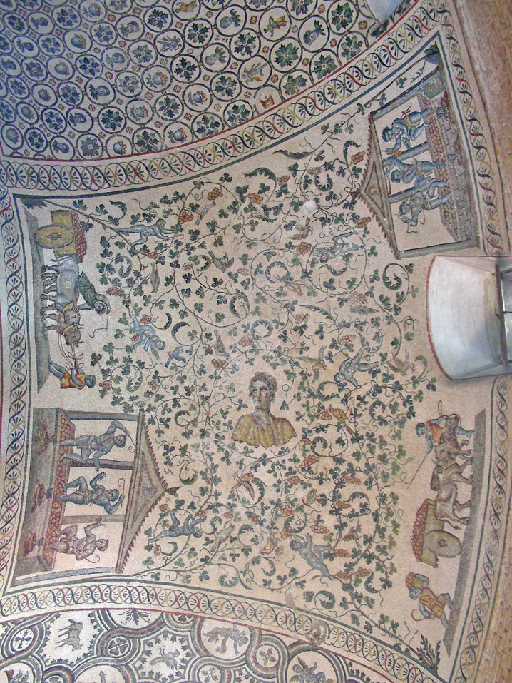 Church of Santa Costanza in Rome, near Sant'Agnese fuori le mura, inside view, mosaics